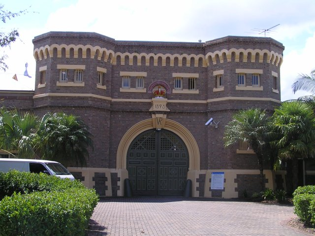 Grafton Correctional Centre